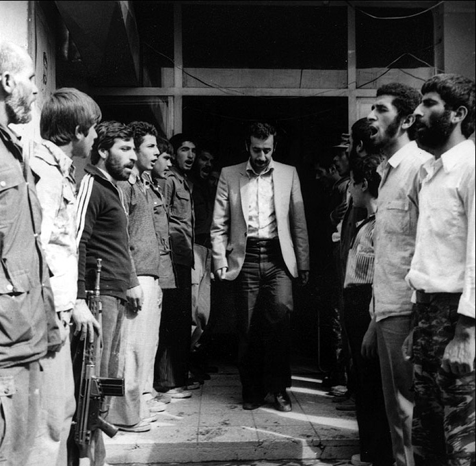 Mohammad Javad Tondguyan (1938–?), Iran Minister of Oil, Visiting Amin Abad Village